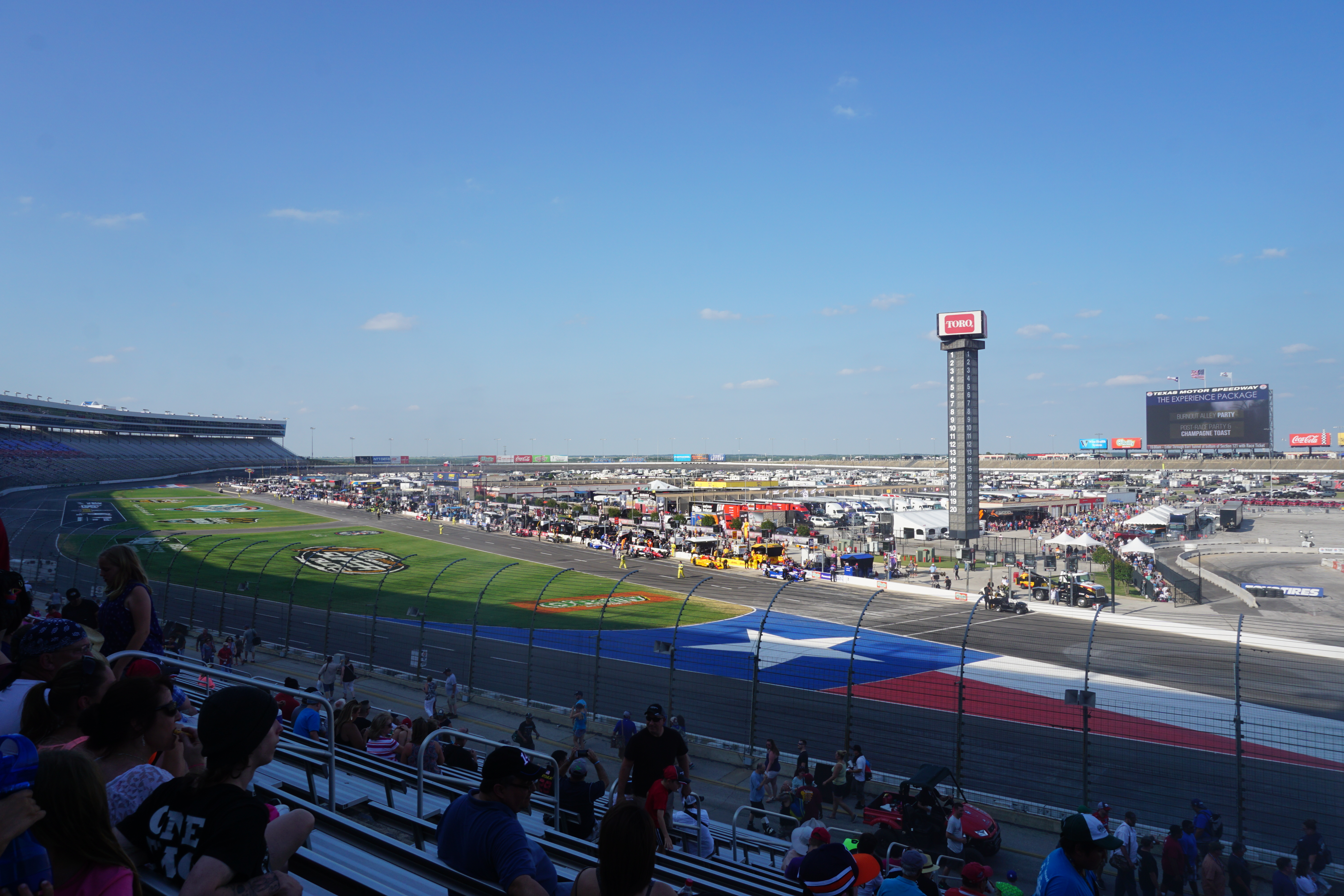 The track before the 2017 Rainguard Water Sealers 600 at Texas Motor Speedway in Fort Worth, Texas (United States).